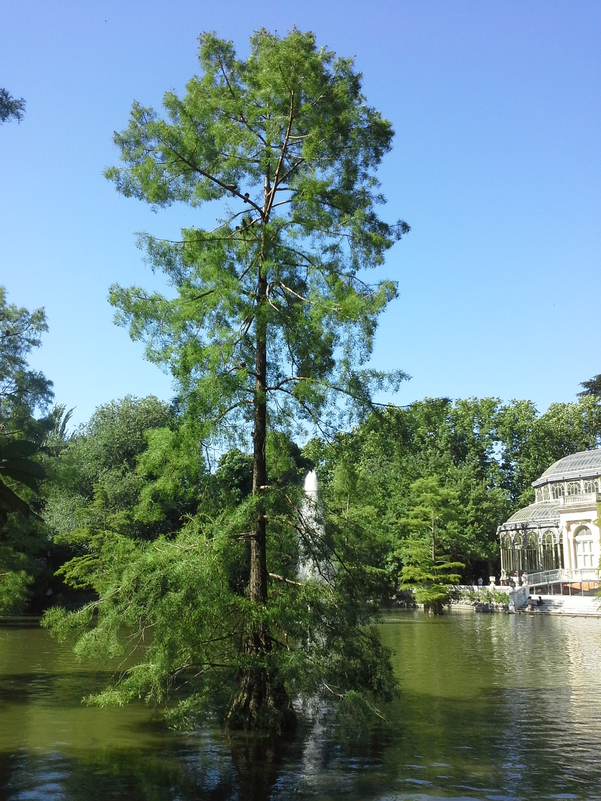 Taxodium distichum at Retiro Park